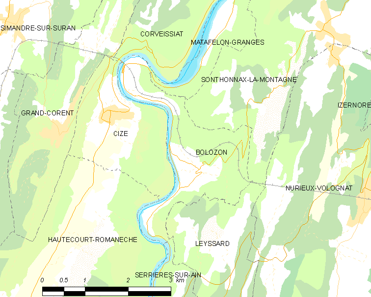 Map of French commune: Bolozon Map commune FR insee code 01051.png